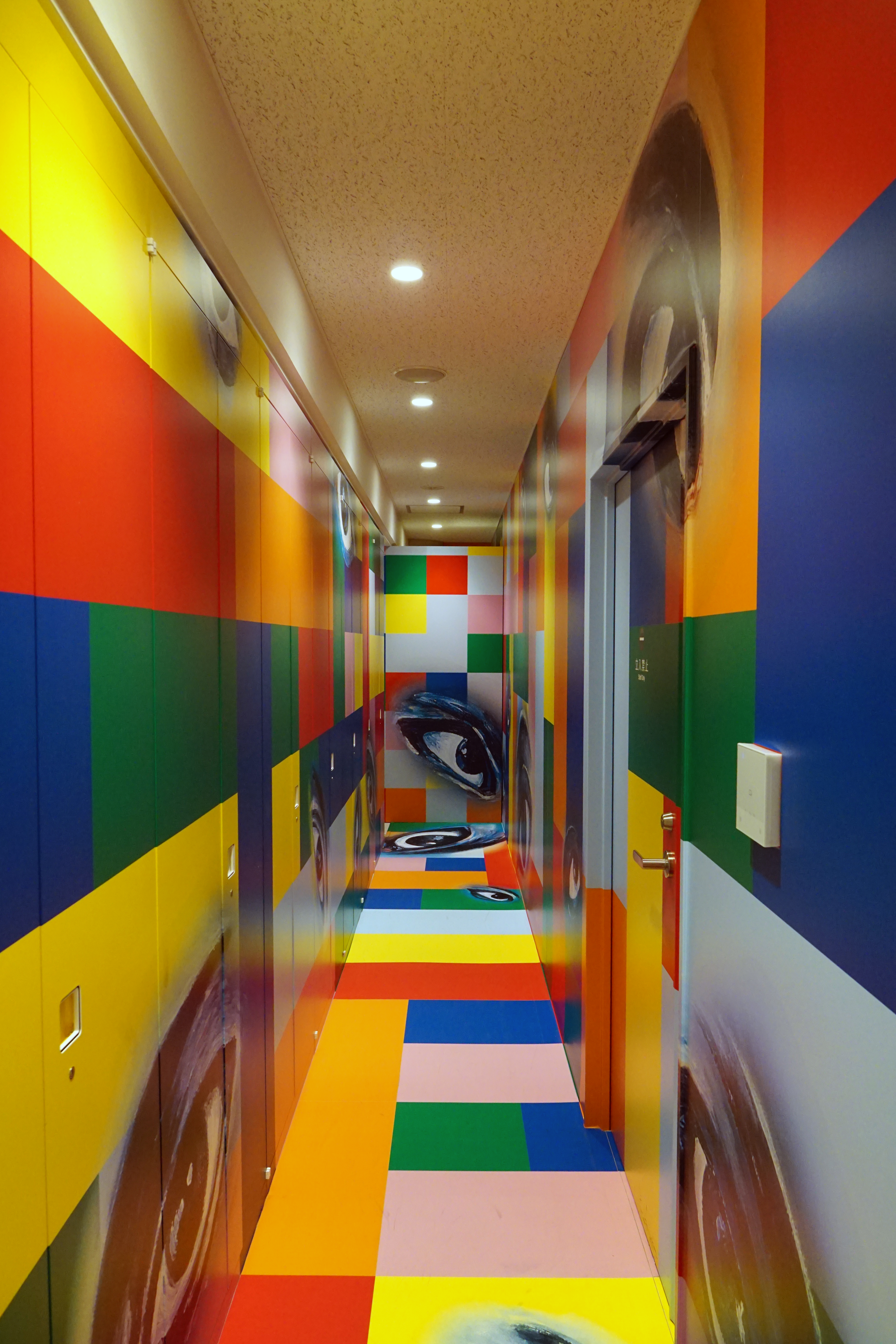 Yokoo Tadanori Museum of Contemporary Art in Kobe, Hyogo prefecture, Japan